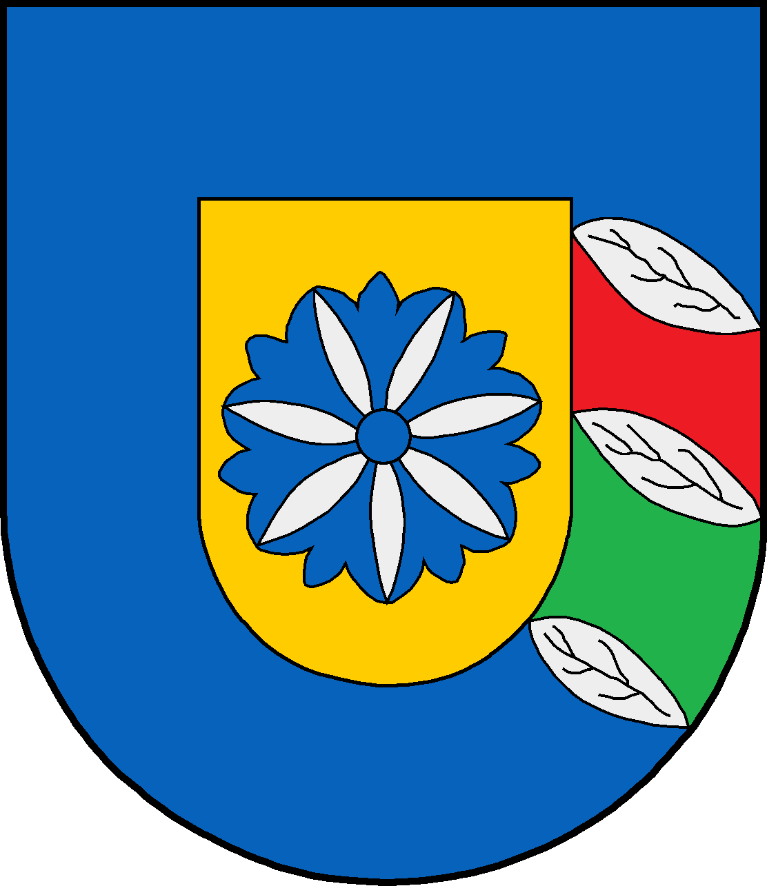 Coat of arms of the municipality Lütjenholm in Schleswig-Holstein, Germany.